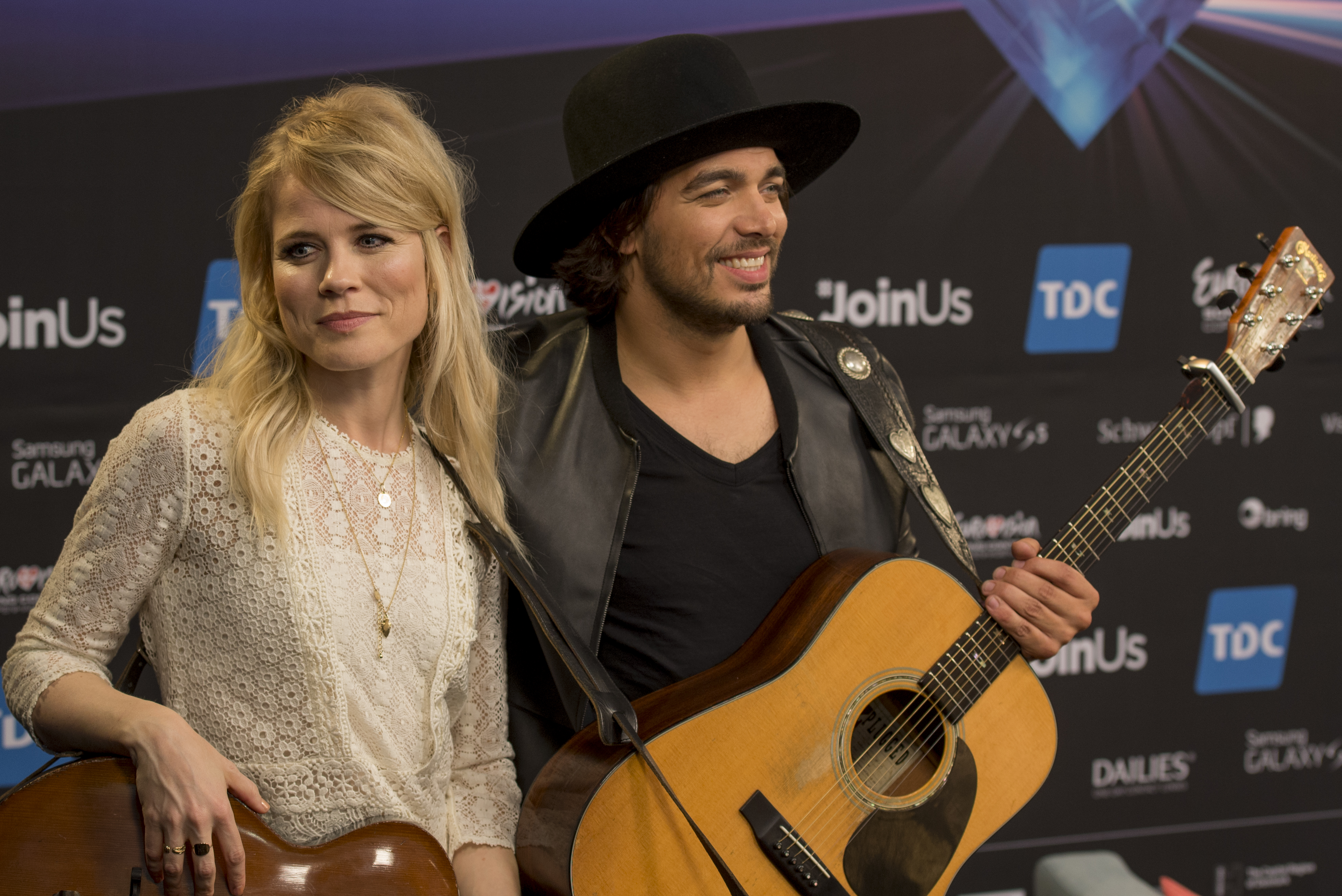 Q15229258 at a Meet & Greet during the Q5354210 Q1748. (Help translate this text)